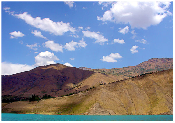 Oʻzbekcha/ўзбекча: Category:Suratlar: Chorbog` Category:Suratlar:Medvezhutka